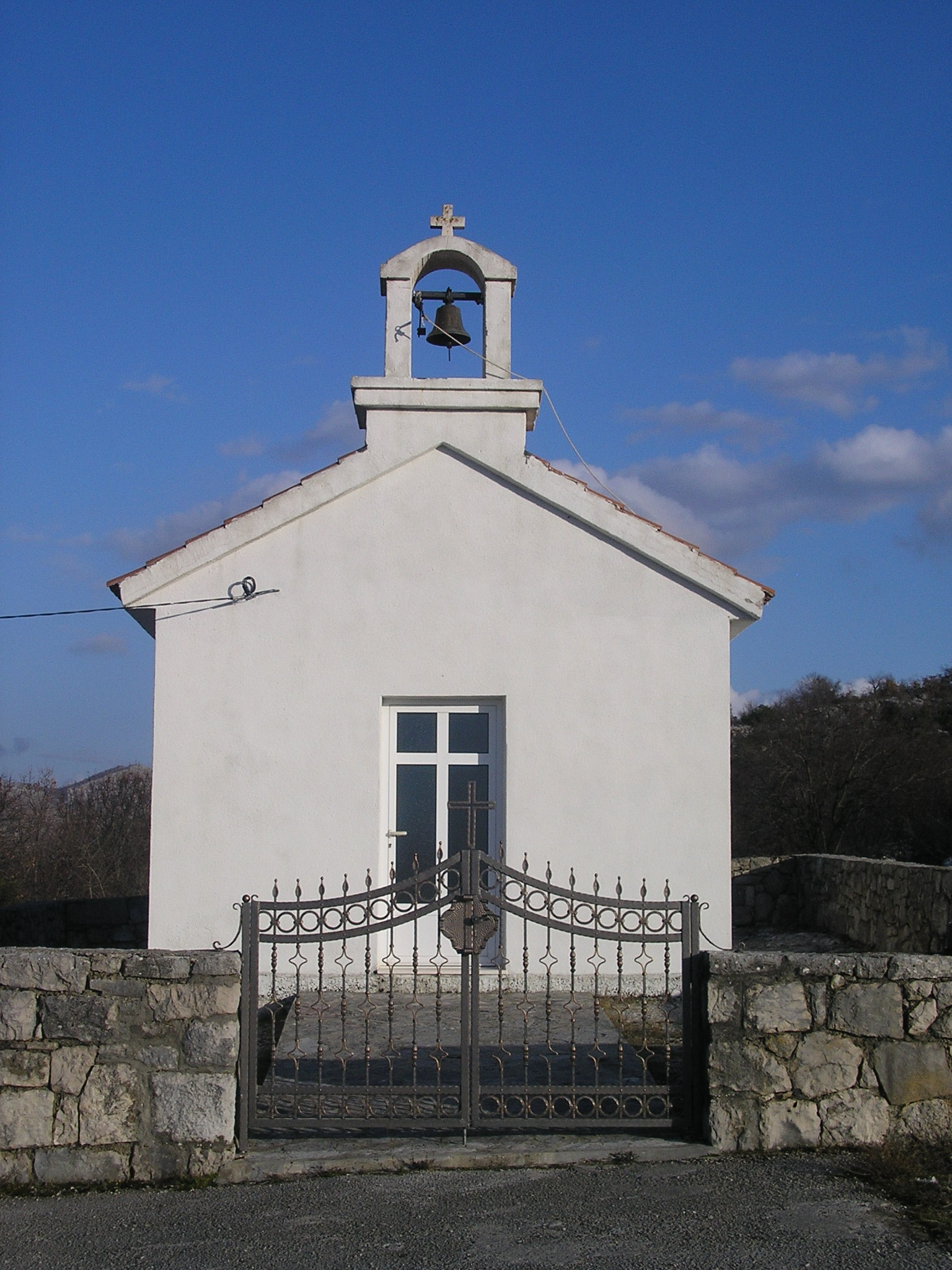 Saint Nicola's chapel in Donji Zelenikovac